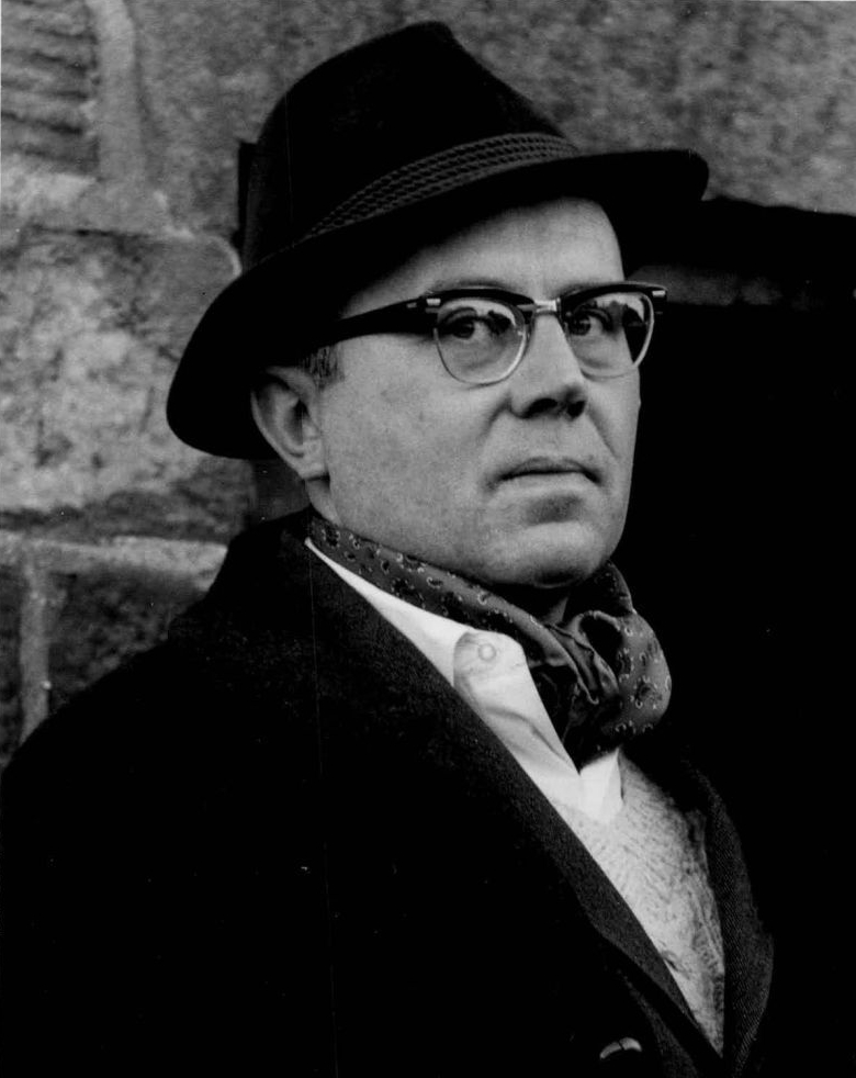 1962 Russell Kirk Press Photo.